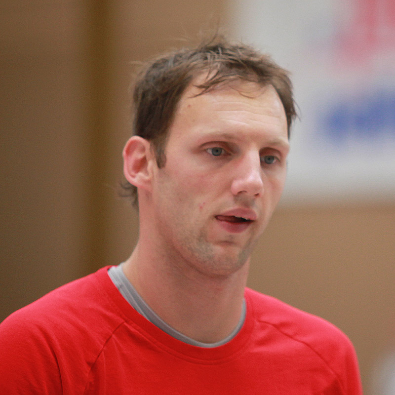 Gergő Iváncsik, Hungarian handball player, on August 14th, 2010 in Ehingen (Germany), during the Schlecker Cup 2010.